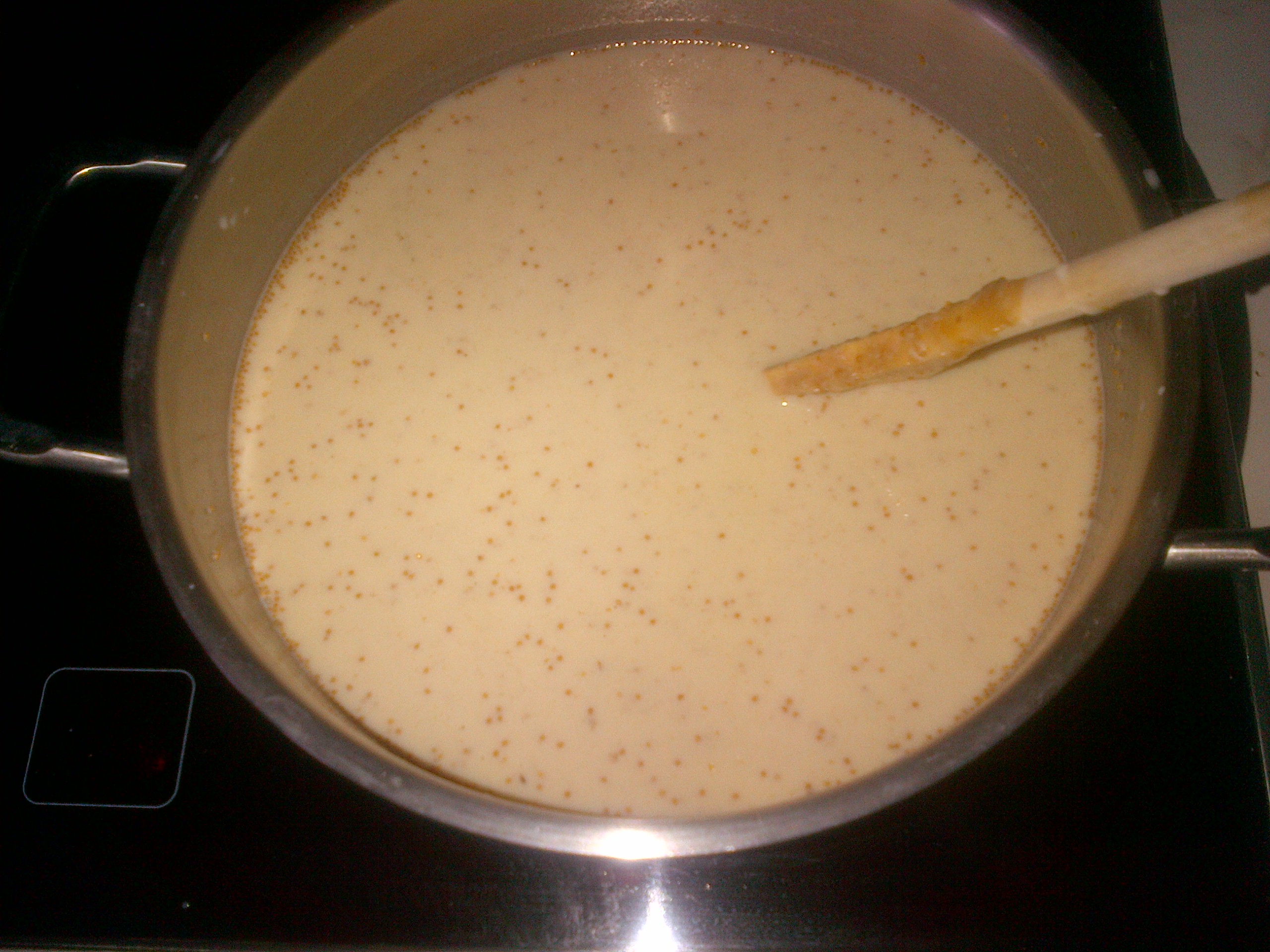 Cooking traditional Turkish dessert "uyutma".